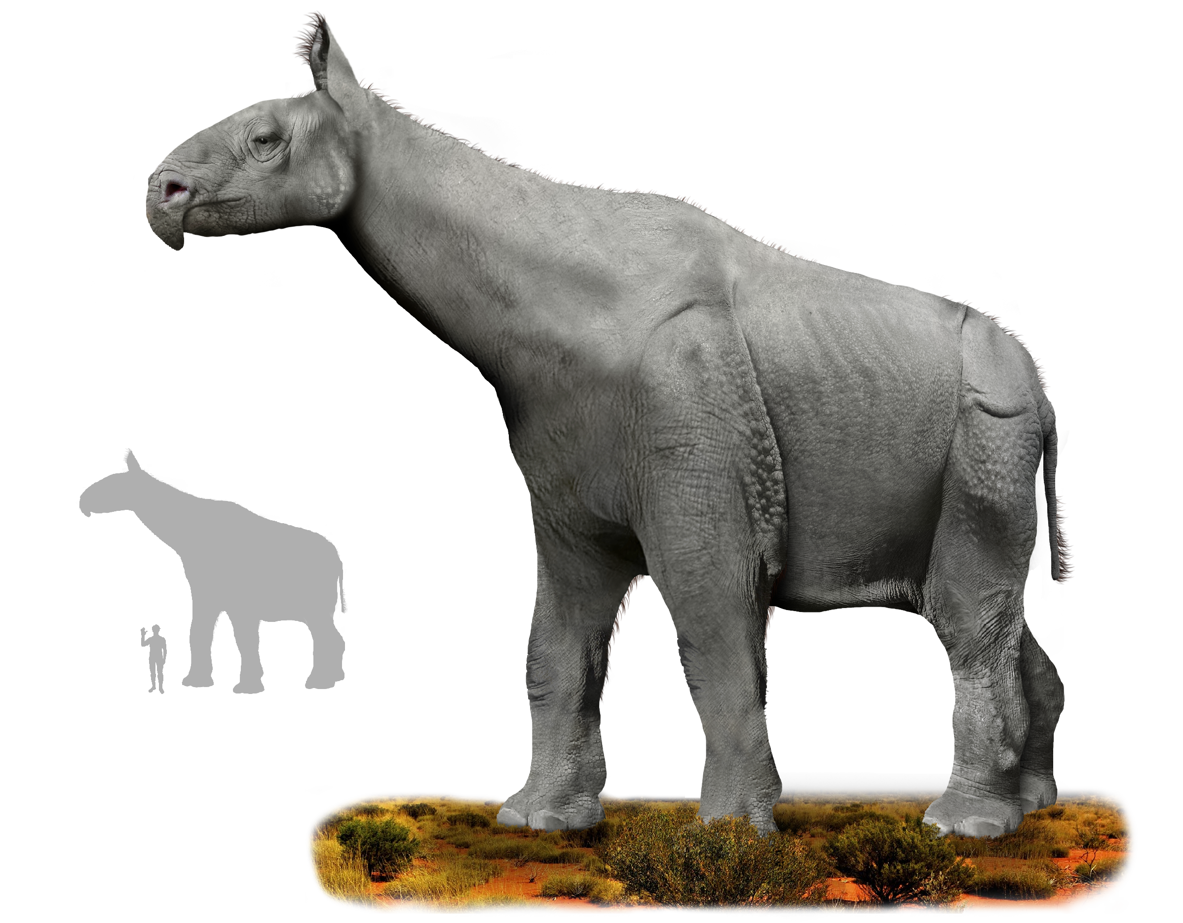 Artist's impression of an Indricotherium.